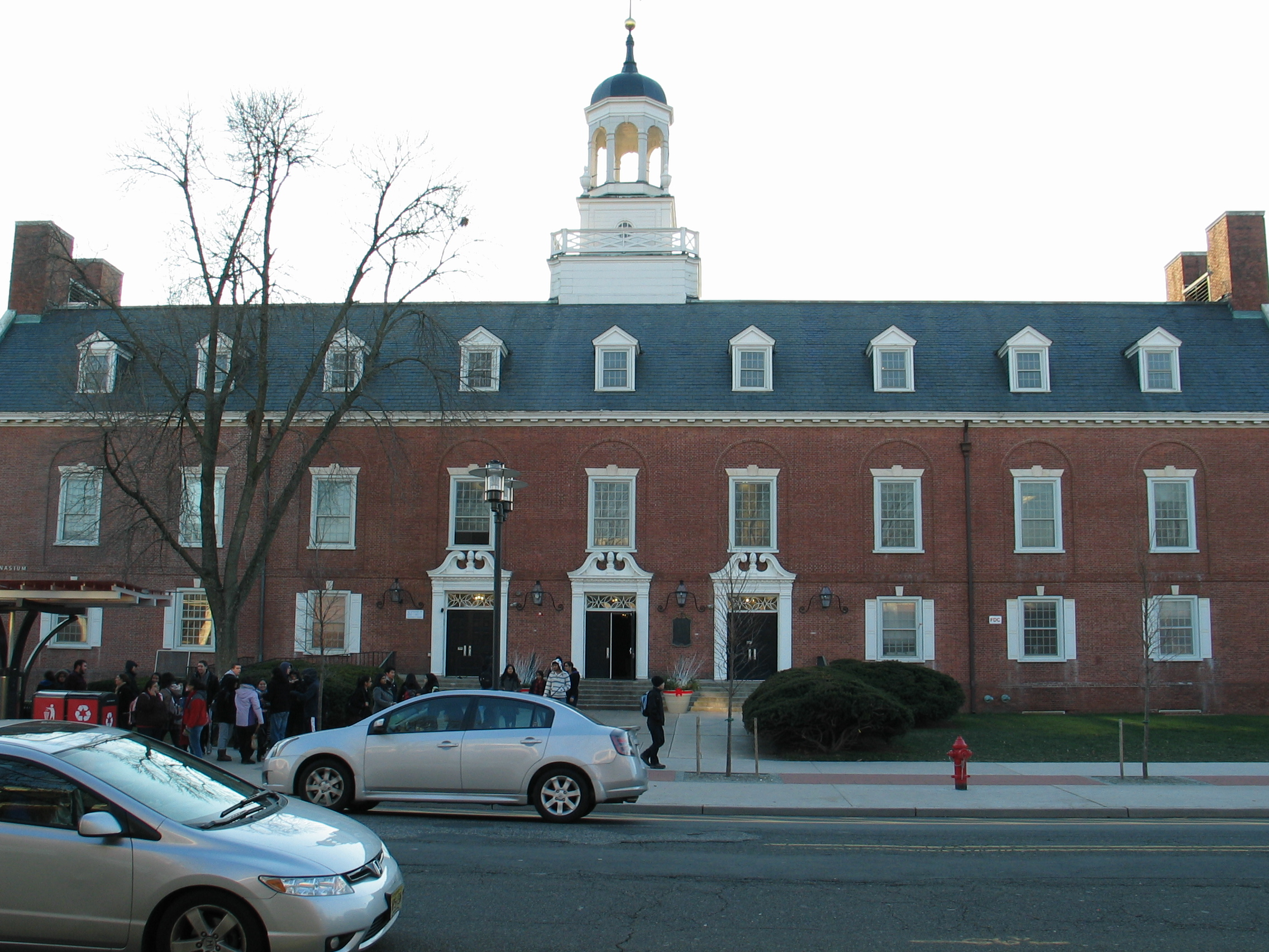 Old Rutgers gymnasium "the Barn"